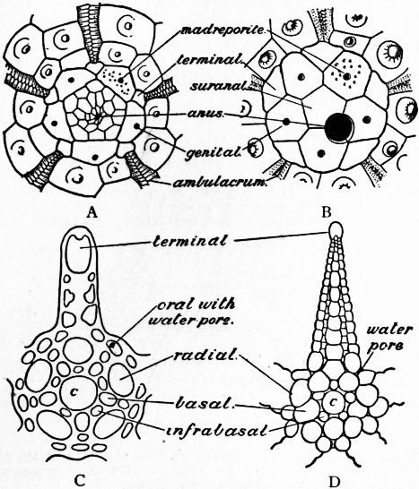 Supposed calycinal systems of free-moving Echinoderms. A, regular sea-urchin (Cidaris); B, sea-urchin with a suranal plate (Salenia); C, developing ophiurid (Amphiura); D, young starfish (Zoroaster).